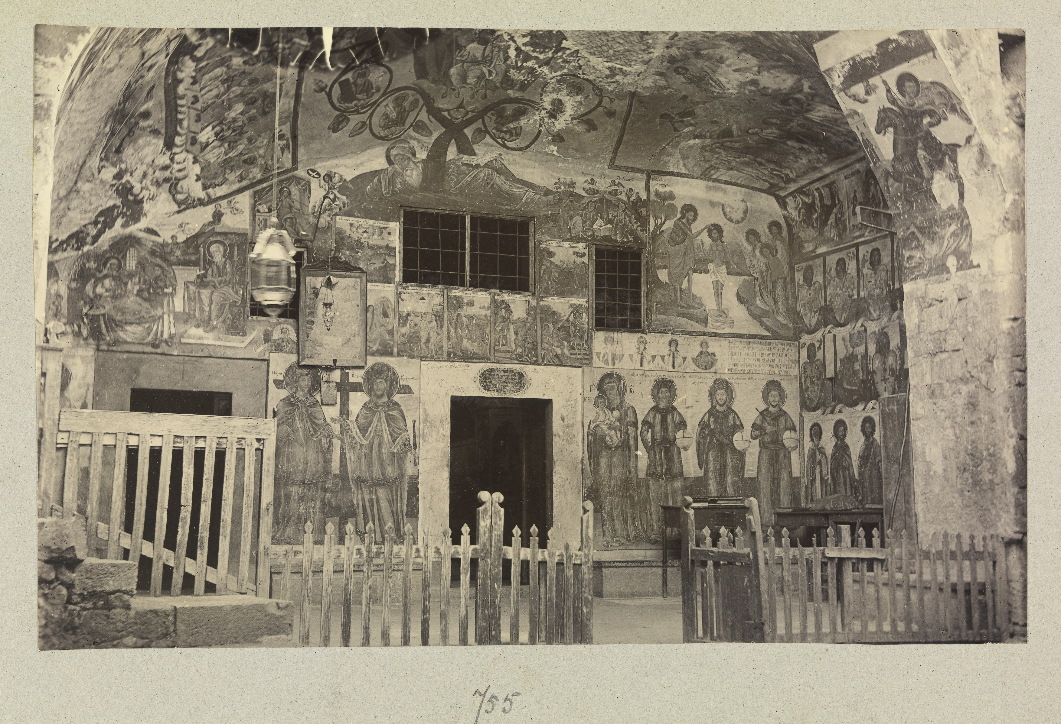 Entrance to the Theoskepastos cave church (Kızlar Manastırı) before it's destruction. Trabzon, Turkey.